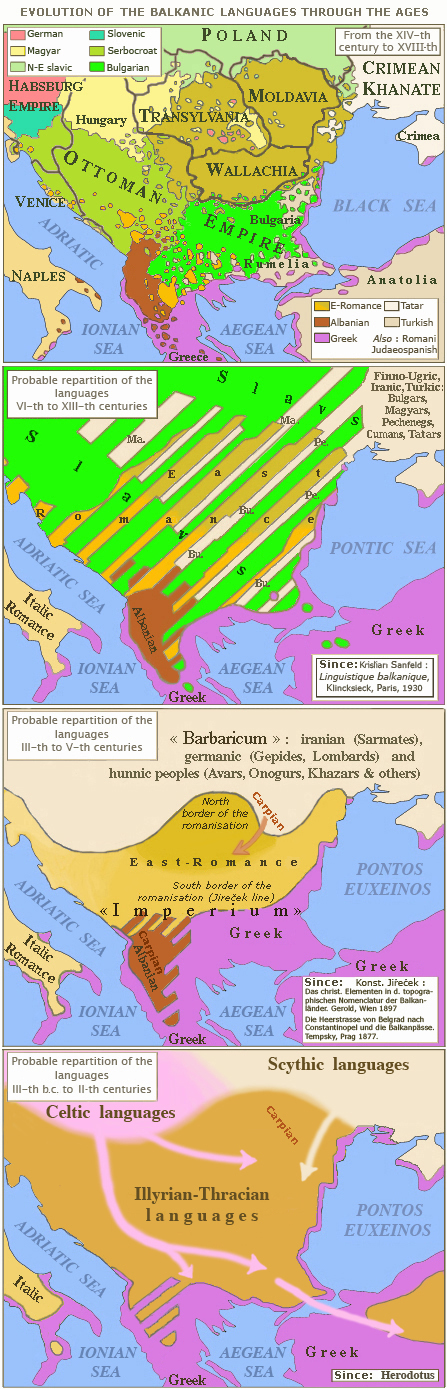 The evolution of the Eastern Romance languages and of the Wallachian territories from 6th century to the 16th century AD, since Atlasul istorico-geografic al Academiei Române, Bucharest 1995, ISBN 973-27-0500-0; Alexandru Filipașcu, Istoria Maramureșului, Bucharest 1940, 270 p.; Neagu Djuvara, Cum s-a născut poporul român?, Humaniatas, Bucharest, 2001, ISBN 973-50-0181-0, Dinu Giurescu, Istoria ilustrată a Românilor, Sport-Turism, Bucharest 1981, pp. 72-121; G.I. Brătianu, Cercetări asupra Vicinei și Cetății-Albe, Univ. din Iași, 1935; Florin Constantiniu et al., Istoria lumii în date, ed. Enciclopedică, Bucharest 1971; Petre Gâștescu, Romulus Știucă: Delta Dunării, CD-Press 2008, ISBN 978-973-1760-98-9 Invalid ISBN; Nicolae Iorga, Istoria românilor, Partea II, Vol. 2, Oameni ai pământului (before year 1000), Bucharest, 1936, 352 p. and Vol. 3, Ctitorii, Bucharest, 1937, 358 p.; Thede Kahl, Rumänien: Raum und Bevölkerung, Geschichte und Gesichtsbilder, Kultur, Gesellschaft und Politik heute, Wirtschaft, Recht und Verfassung, Historische Regionen; Constantin-Mircea Ștefănescu, Nouvelles contributions à l’étude de la formation et de l’évolution du delta du Danube, Paris, Bibliothèque nationale, 1981; Gheorghe Postică, Civilizația veche românească din Moldova, Știința, Chișinău 1995; R. Rohlfs, article Valachie, Valaque in : Dictionnaire étymologique PUF, Paris, 1950 ; Alexandru Rosetti : Histoire de la langue roumaine des origines au XVII-e siècle, Editura pentru Literatură, Bucharest 1968; Kristian Sanfeld-Jensen, Linguistique balkanique, Klincksieck, Paris 1930, et George Vâlsan: Opere Alese (dir.: Tiberiu Morariu), Ed. științifică, Bucharest 1971.